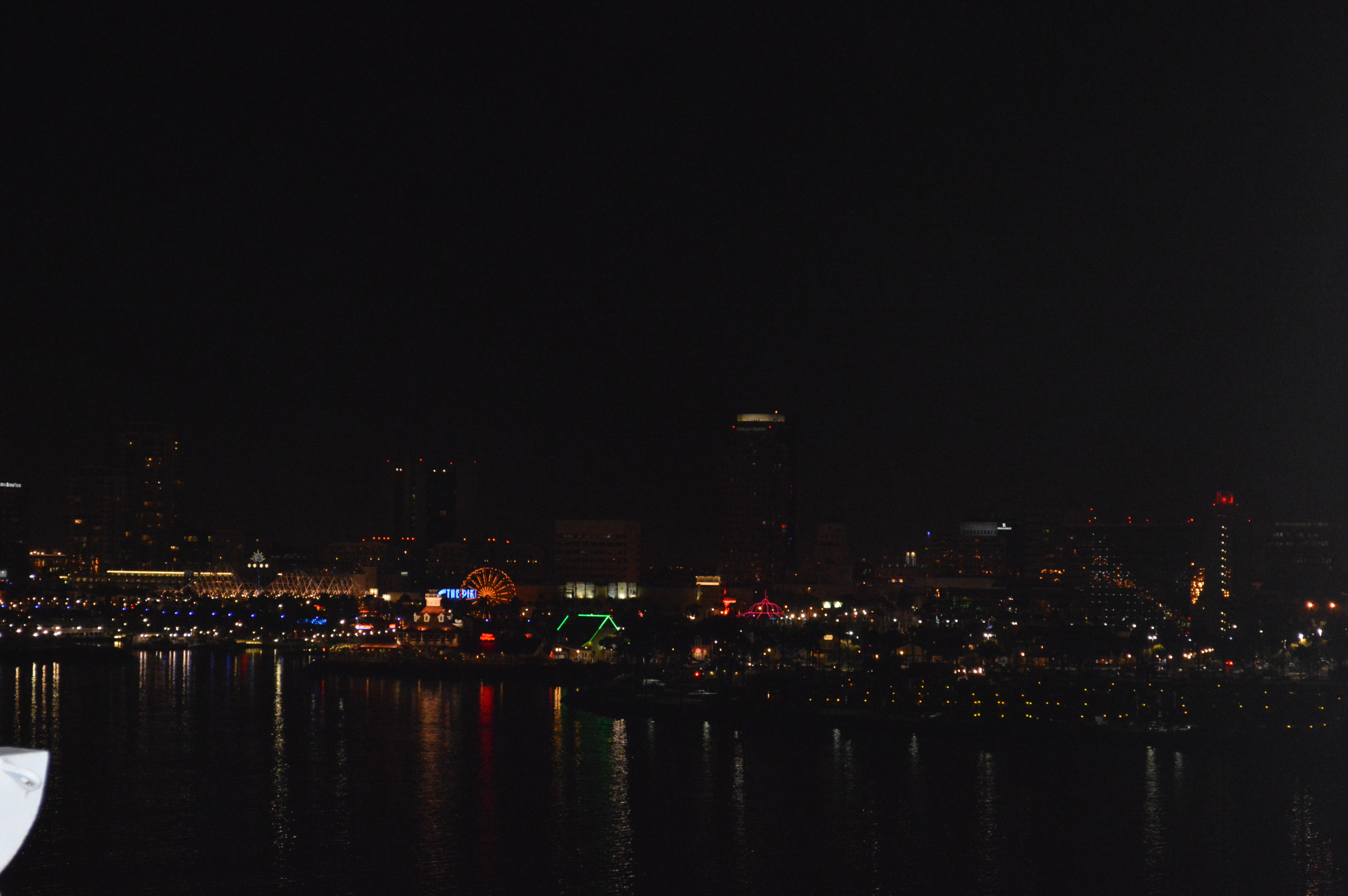 Downtown, Long Beach from aboard the Queen Mary